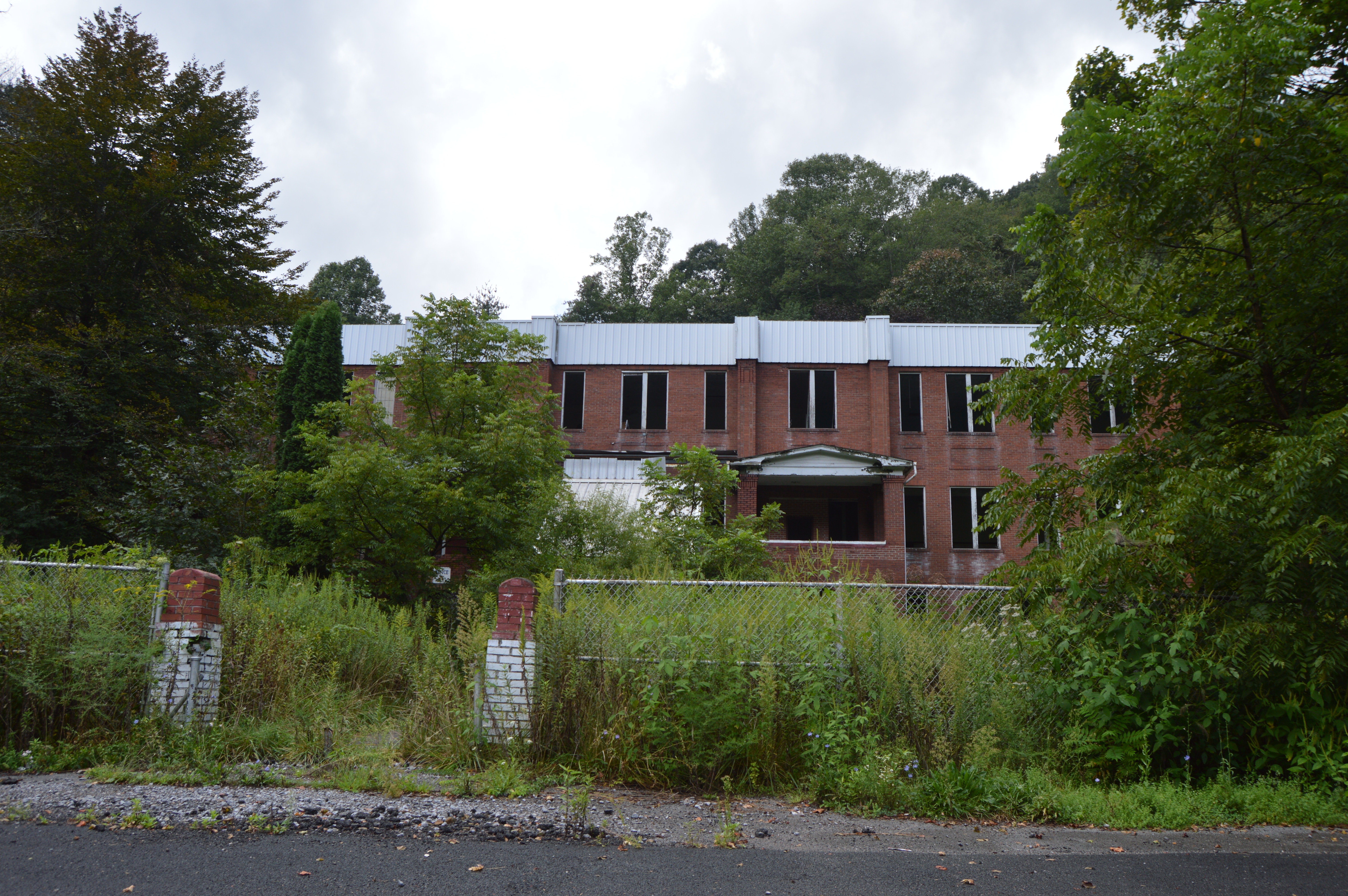 Front and northern end of the abandoned Switchback Elementary School (originally Elkhorn High School), located on U.S. Route 52 at Ennis, West Virginia, United States. It was built in 1922 and closed in 2004.